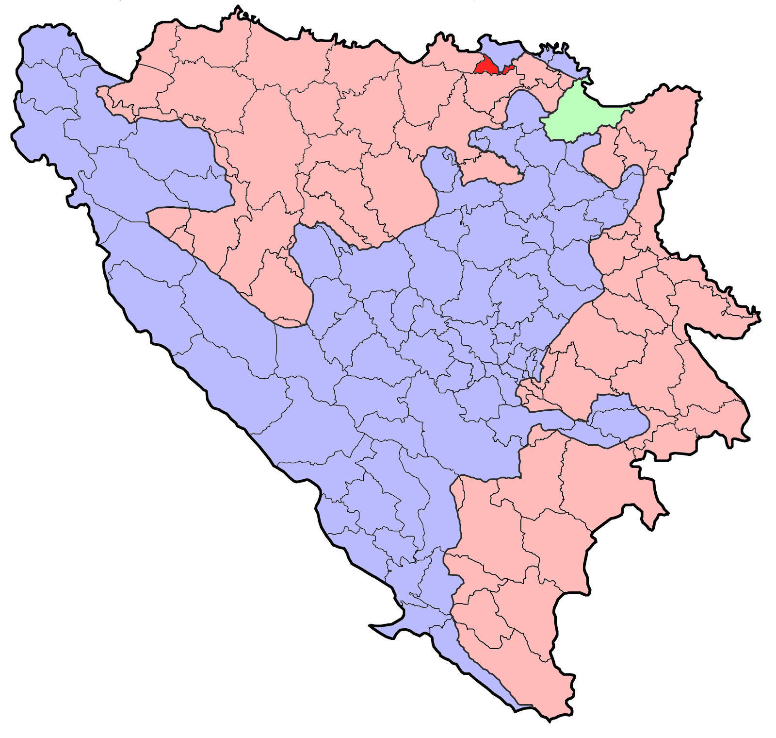 Municipality location Vukosavlje